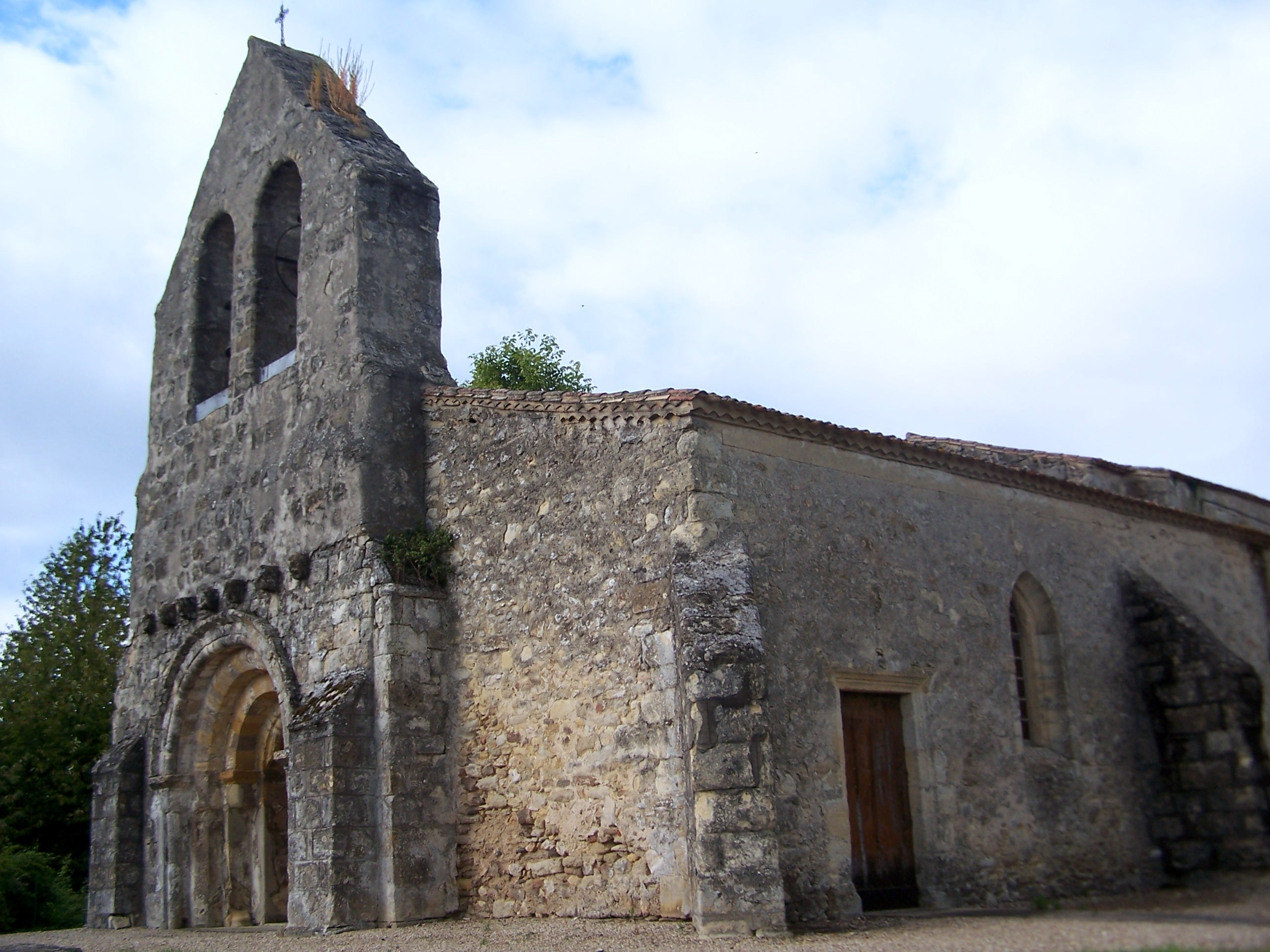 Church Notre-Dame of Massugas (Gironde, France)